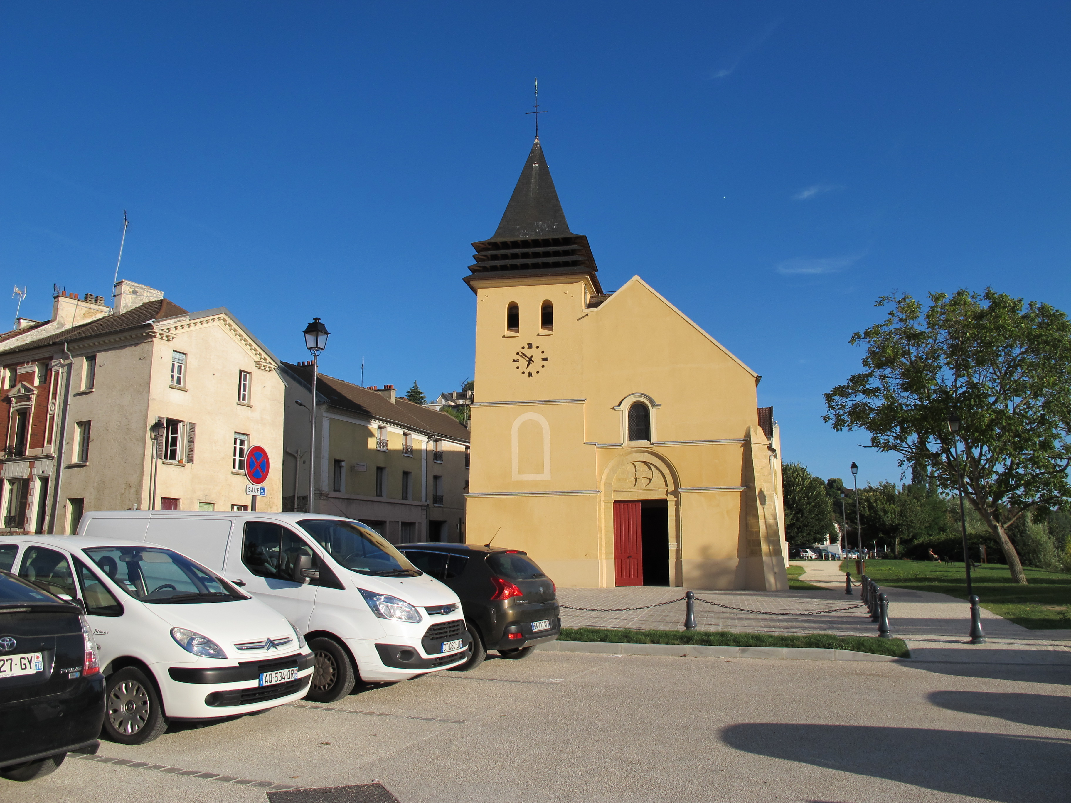 The Saint-Nicolas Church in La Frette-sur-Seine